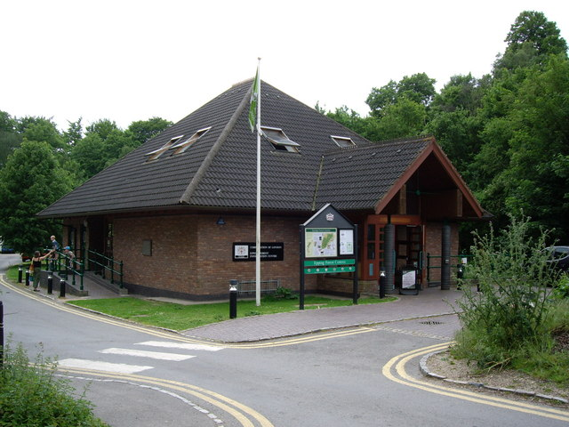 The Epping Forest Information Centre, part of the Epping Forest Field Centre complex, at High Beach, Epping Forest district, Essex.